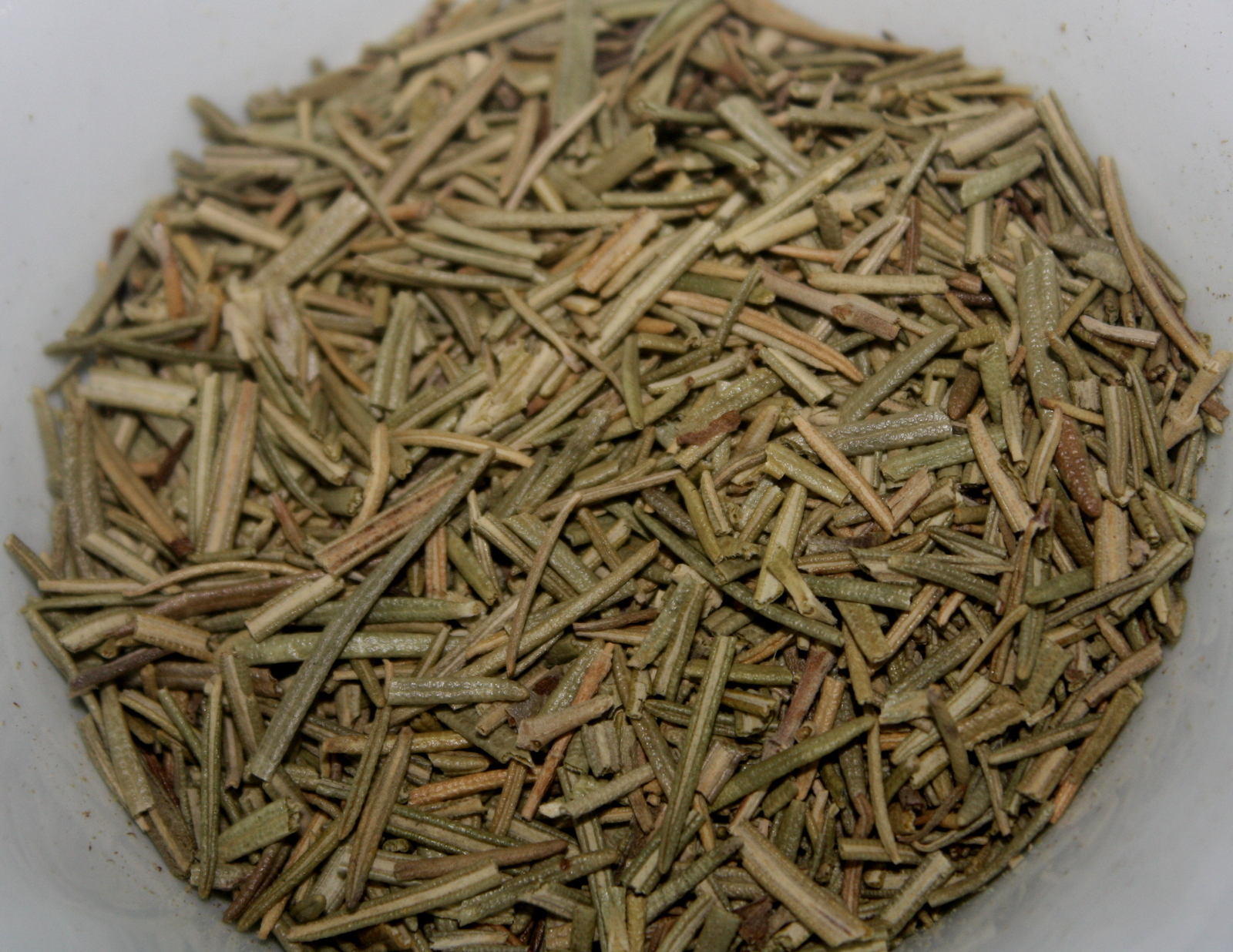 Rosemary(শুকনো রোজমেরী),Kolkata, West Bengal, India